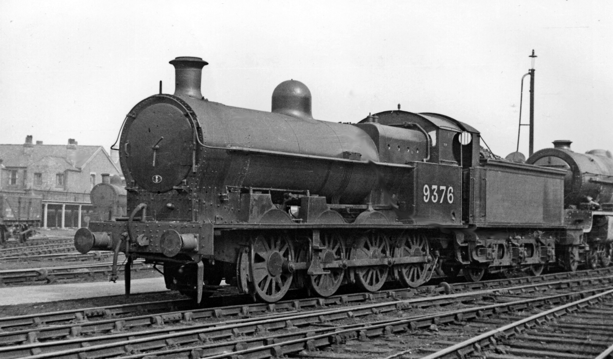 LNW 0-8-0 at Crewe Works fresh from repair. These 0-8-0s were the principal work-horses for freight traffic on the latter-day London & North Western. No. 9376 is a G2A Class 0-8-0, built in 11/1902, rebuilt in 5/40 and withdrawn in 3/58. Here it is ex-Works in 1948 but not yet renumbered 49376 and has nothing on the tender; it is fitted with a tender-cab for working in the bitter cold around Buxton. Behind it is a Stanier 'Princess Ro